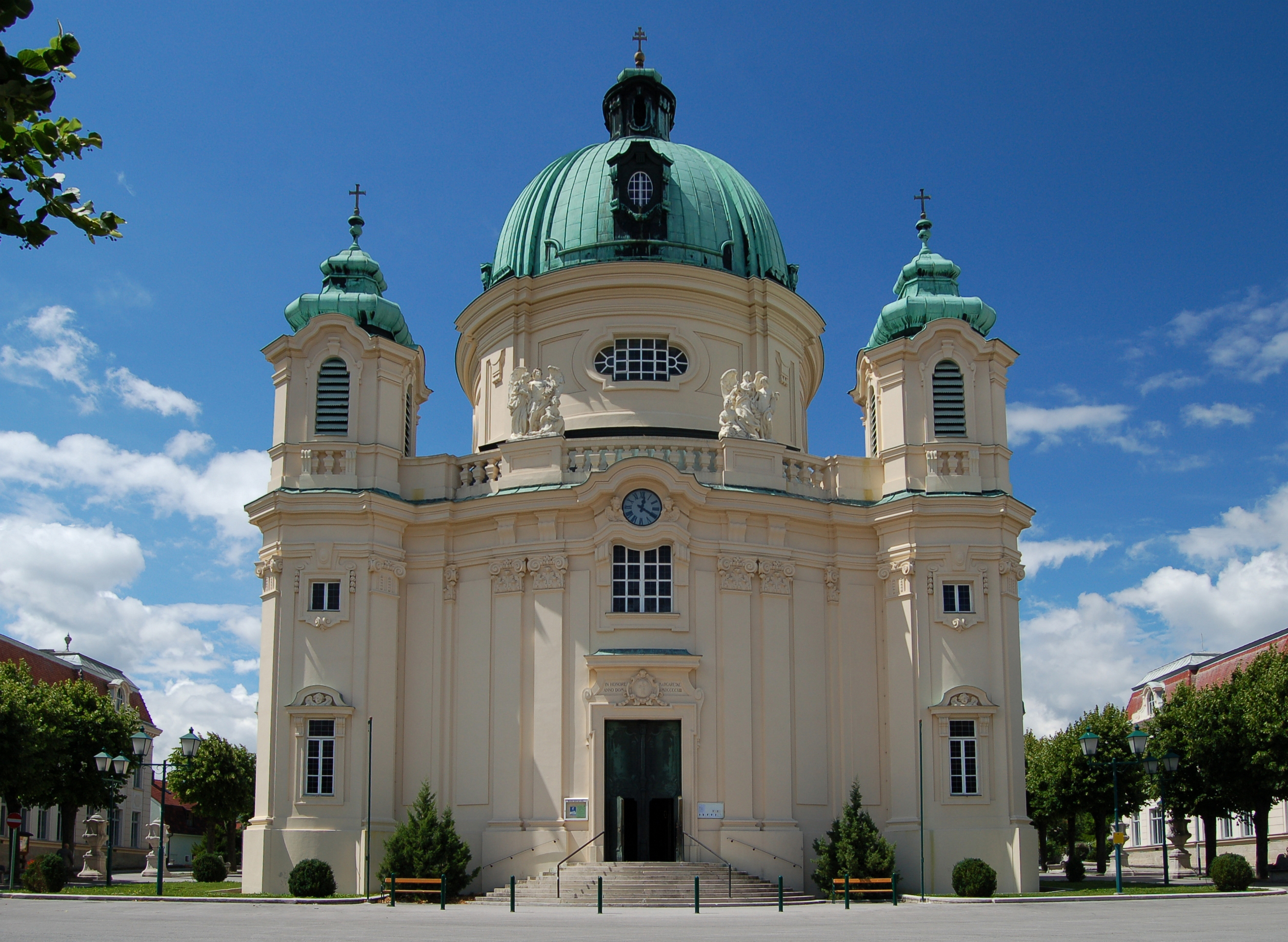 St. Margareta, the parish church of Berndorf, Lower Austria.